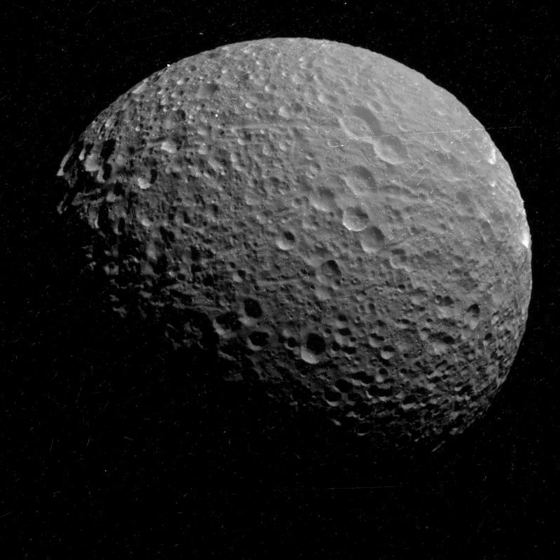 Side opposite from the big crater, "Herschel" Courtesy NASA/JPL-Caltech